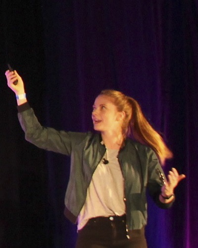 Simone Giertz presenting at the Palace of Arts building (Innovation Hangar) in San Francisco